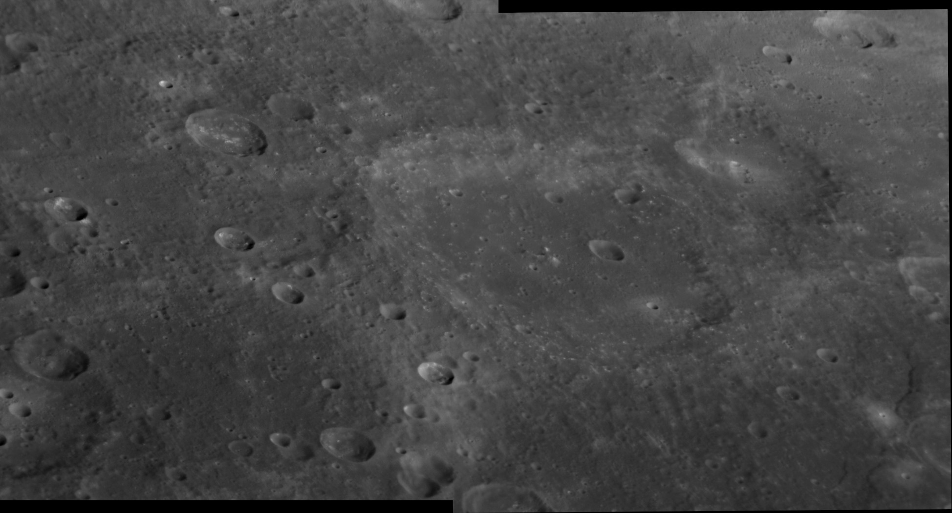 Derzhavin and Enheduanna craters on Mercury. MESSENGER Narrow Angle Camera mosaic (EN0131771423M, EN0131771428M). North is to upper left. Statistics below are approximately correct for the center of the mosaic. Emission Angle: 60 Incidence Angle: 58 Latitude: 45 Longitude: 322 Phase Angle: 54